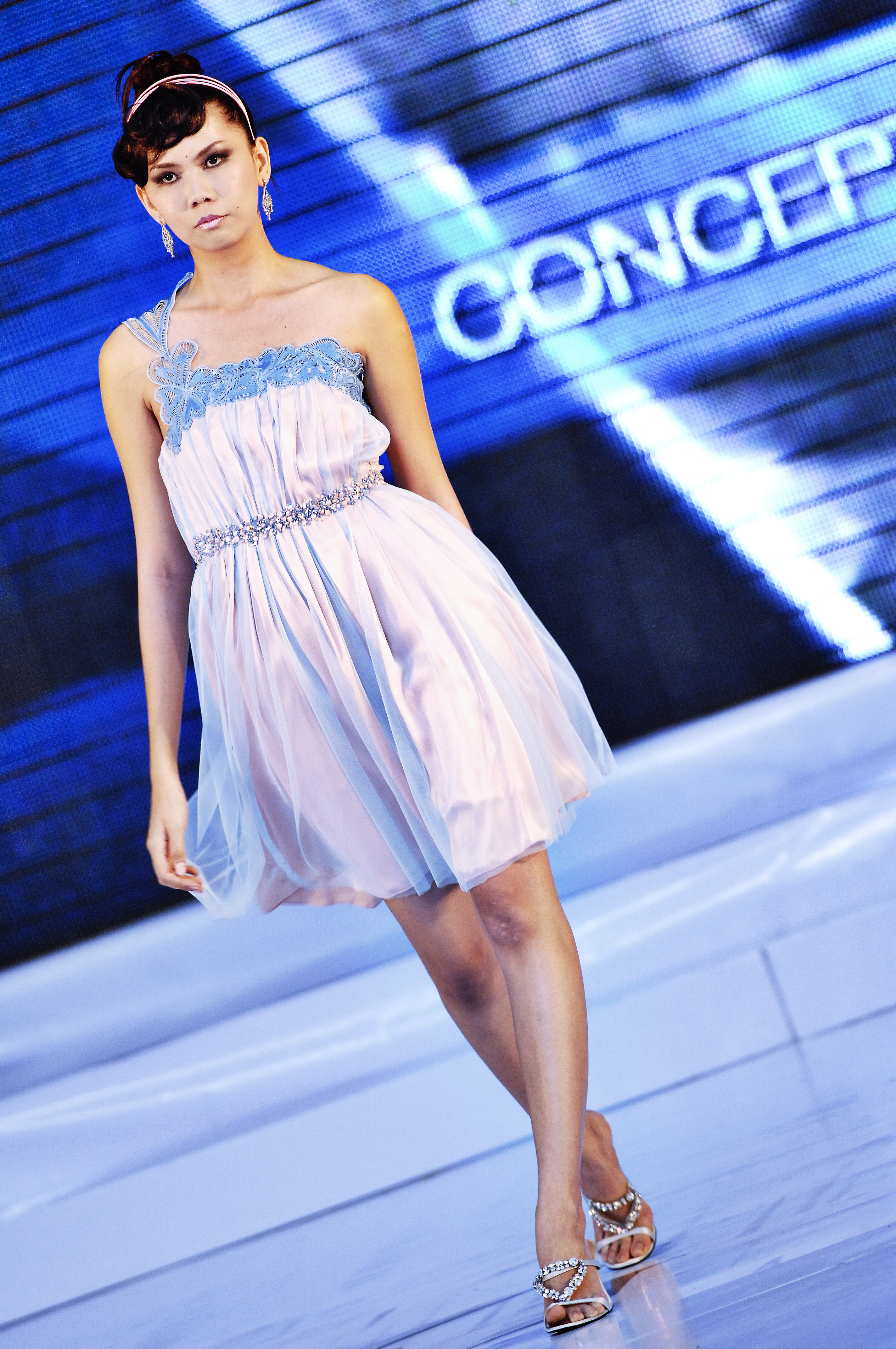 A fashion model (Yuki Chiu) on the runway.